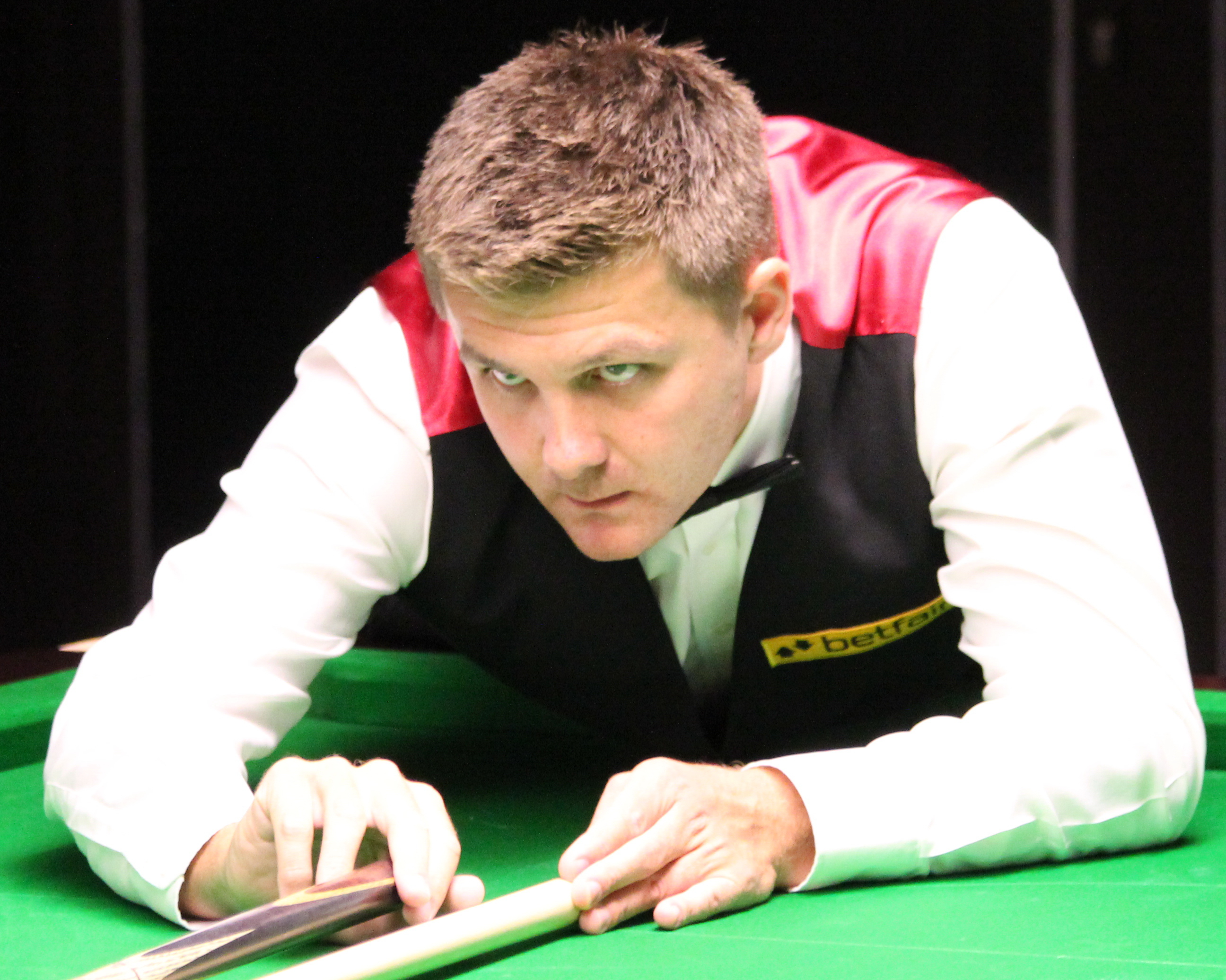 Ryan Day beim Paul Hunter Classic 2012